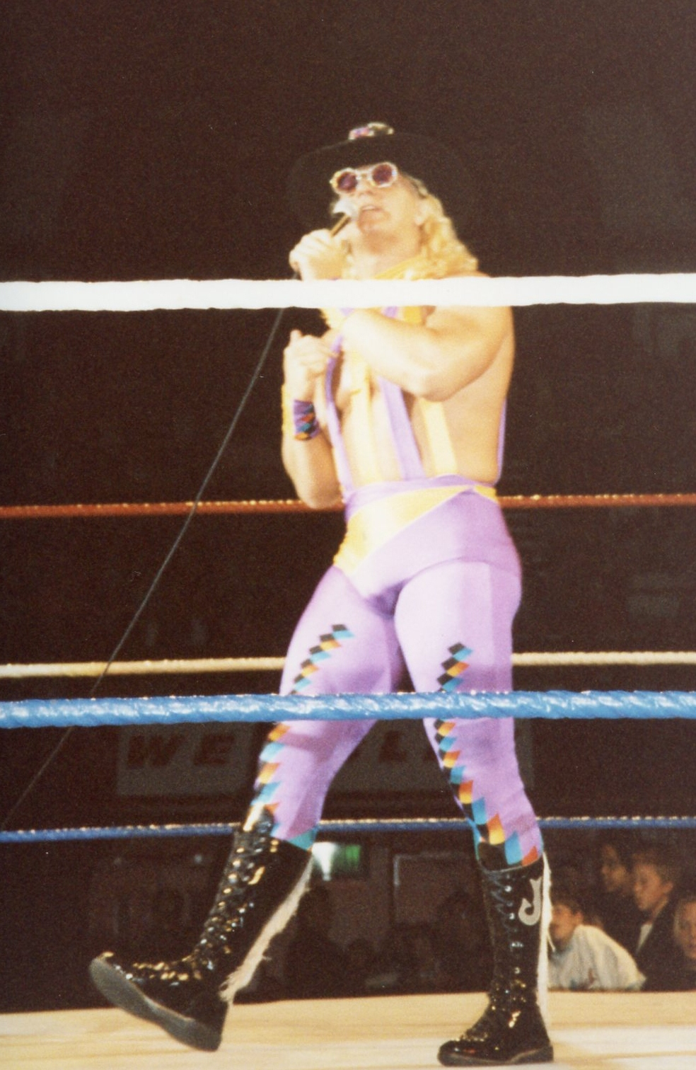 Jeff Jarrett in 1994.